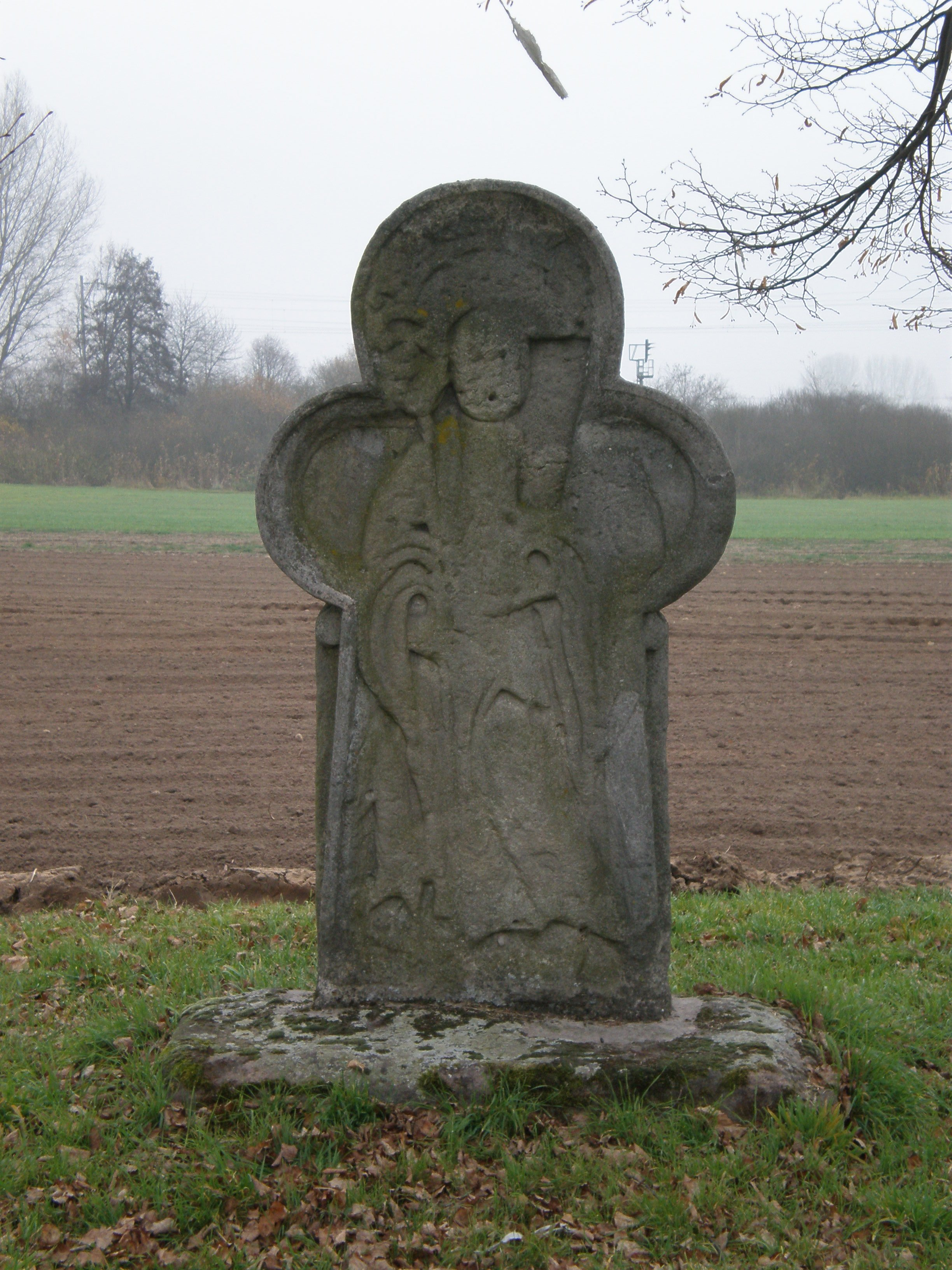 Stone of Saint Giles in Erlangen-Eltersdorf, Germany